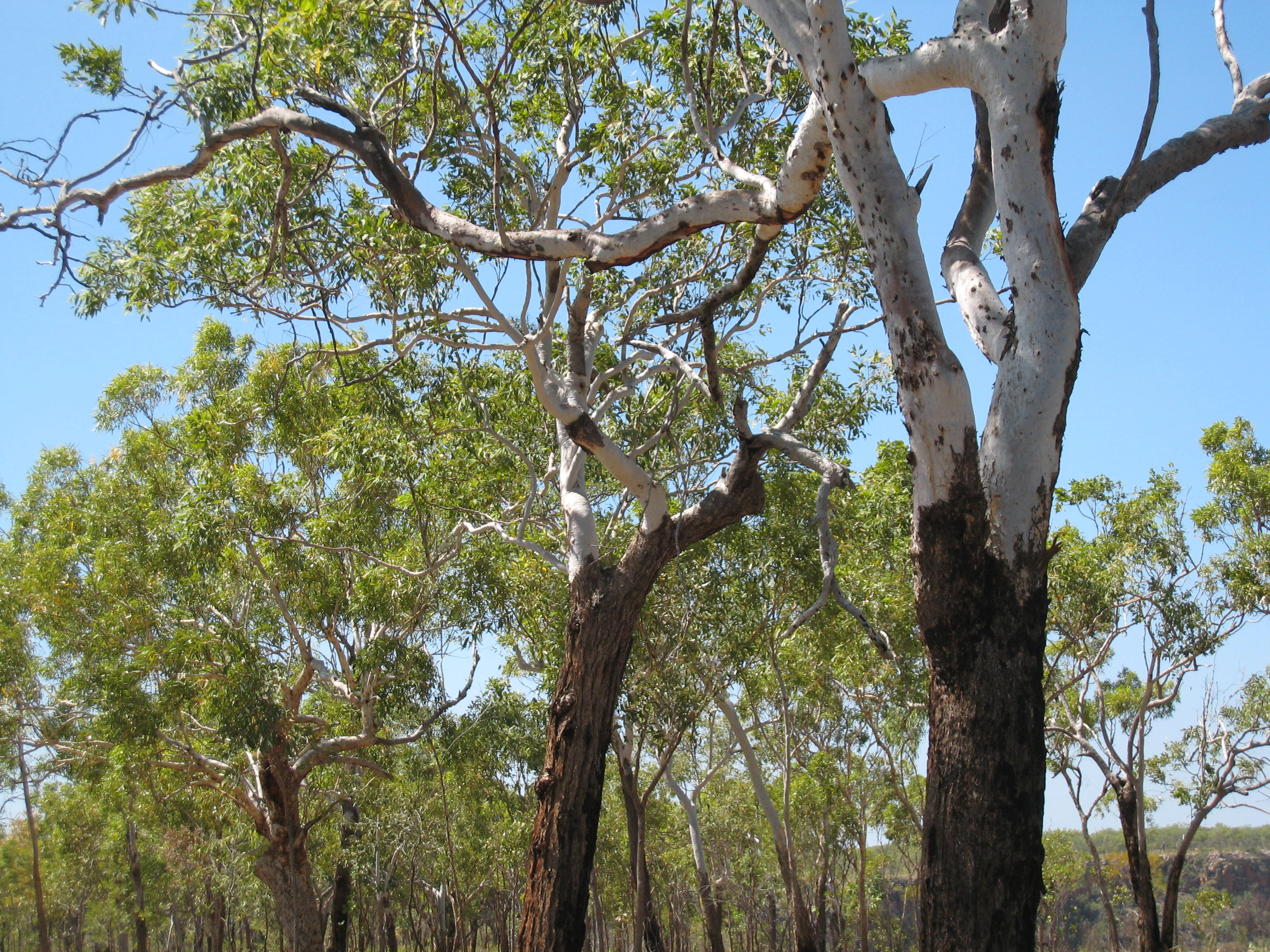 Eucalyptus miniata, Yambarran plateau, Victoria Bonaparte, Northern Territory